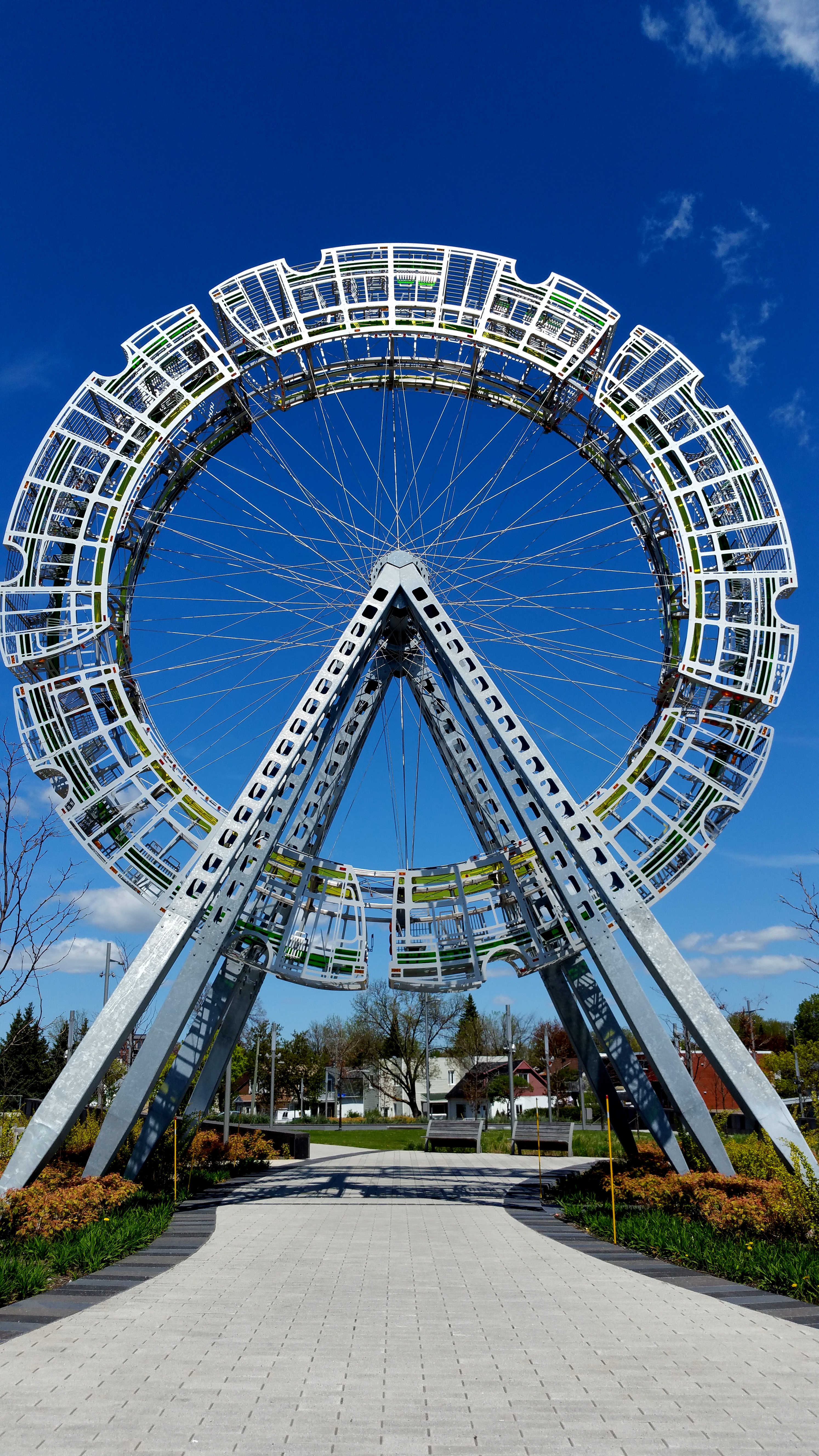 La vélocité des lieux, BGL Collective, corner Pie-IX and Henri-Bourrassa, Montréal, Quebec, Canada. Site officiel